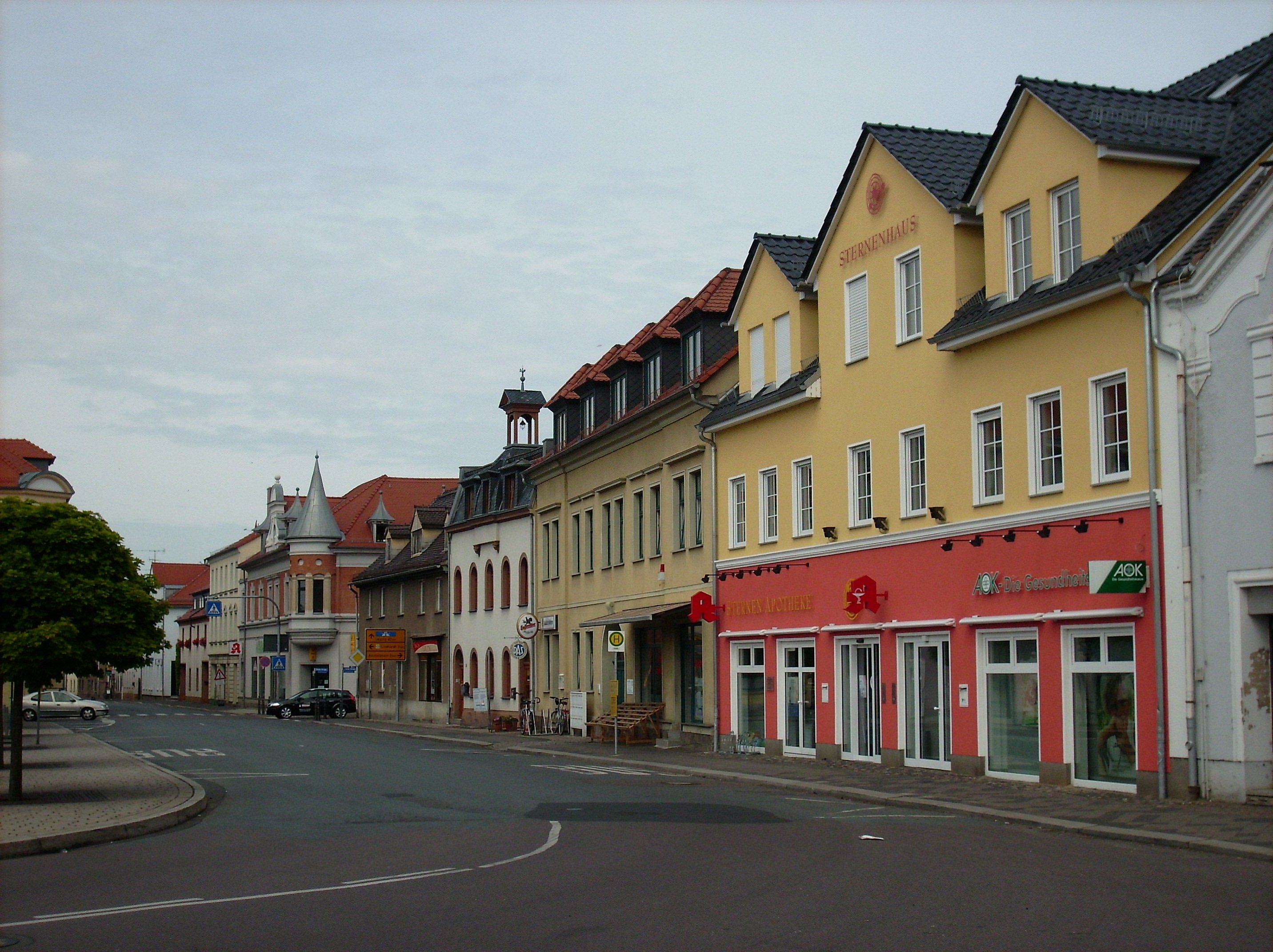 North side of the market-square in Naunhof (Leipzig district, Saxony)